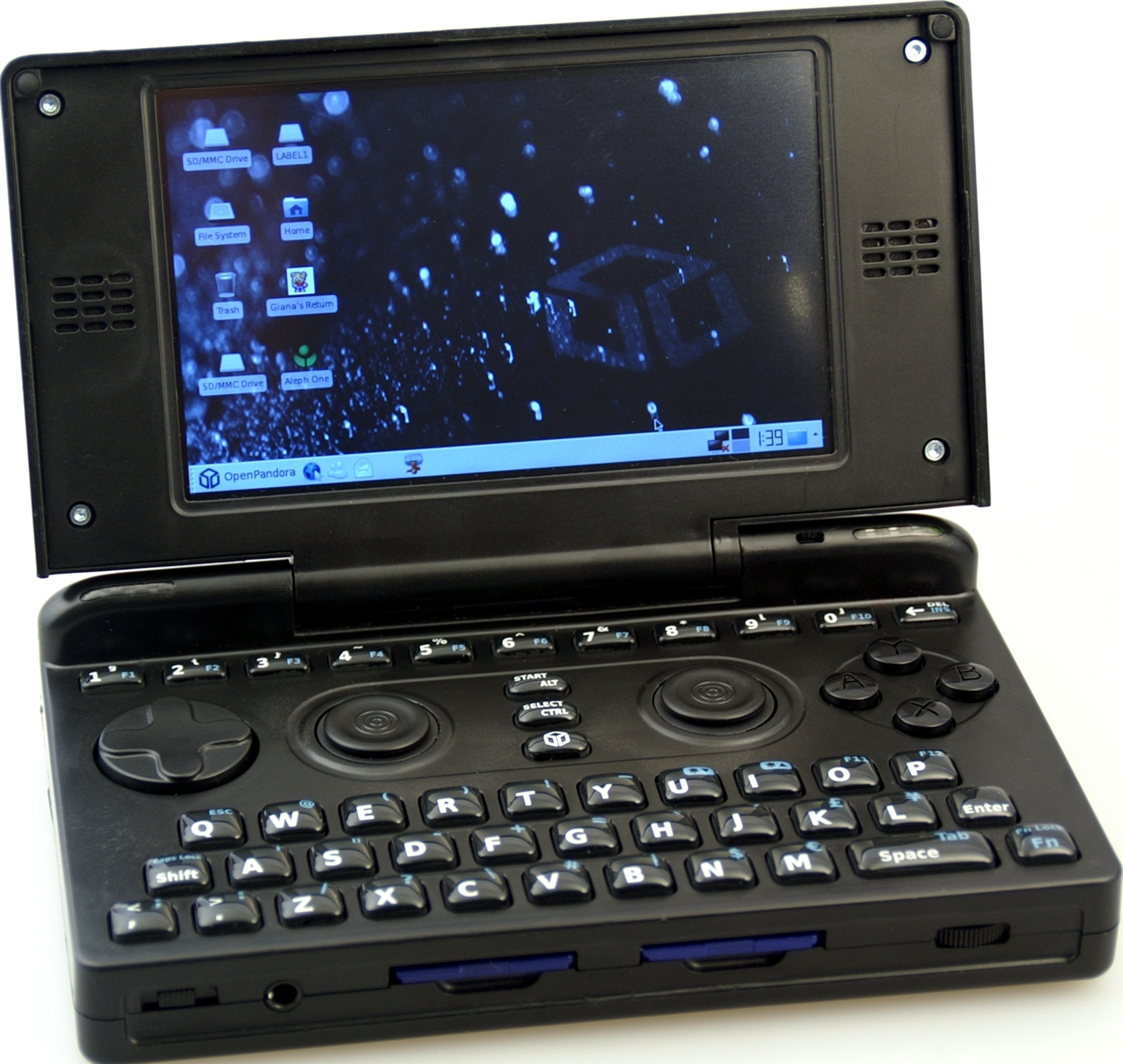 Picture of a complete, mass production Pandora.